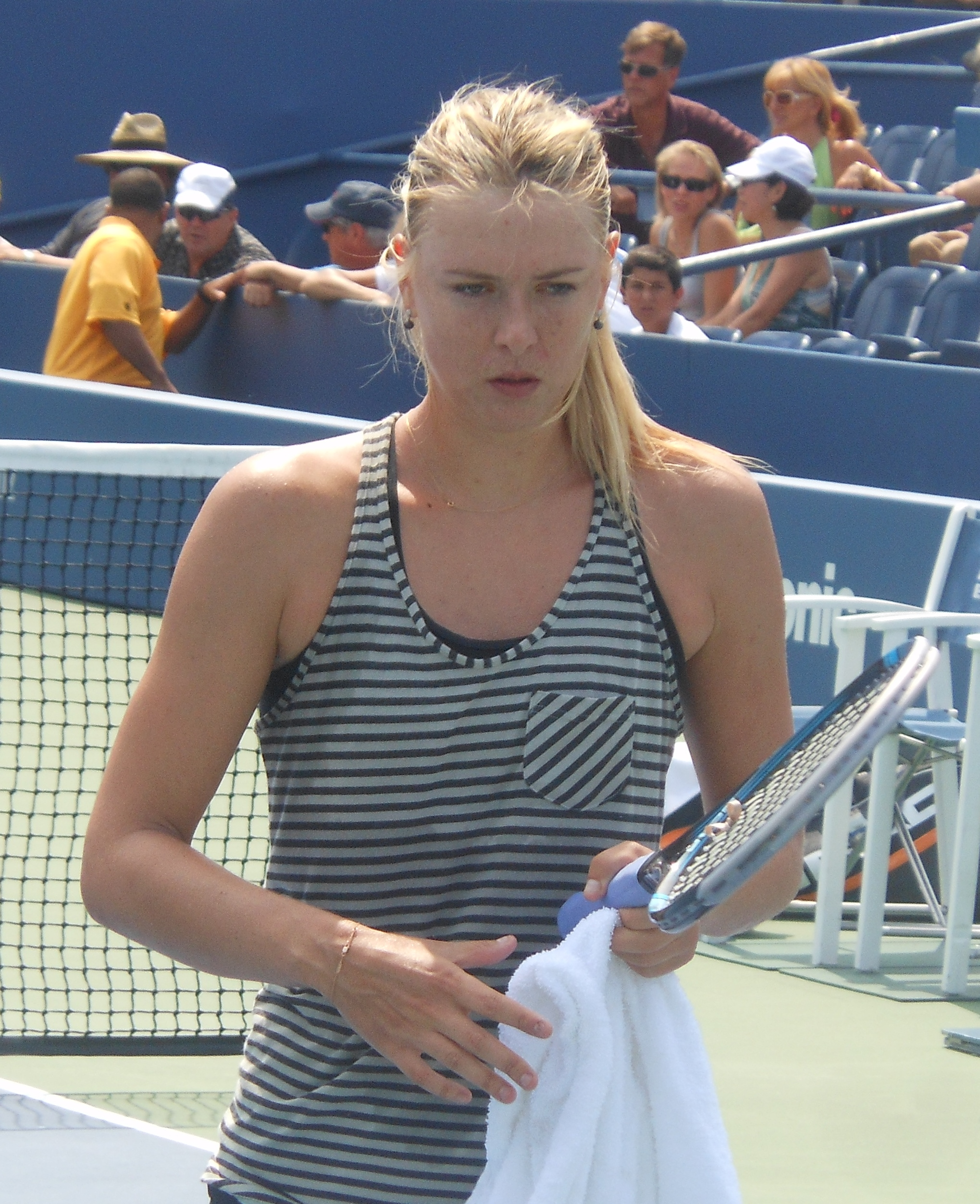 Maria Sharapova 2012 US Open